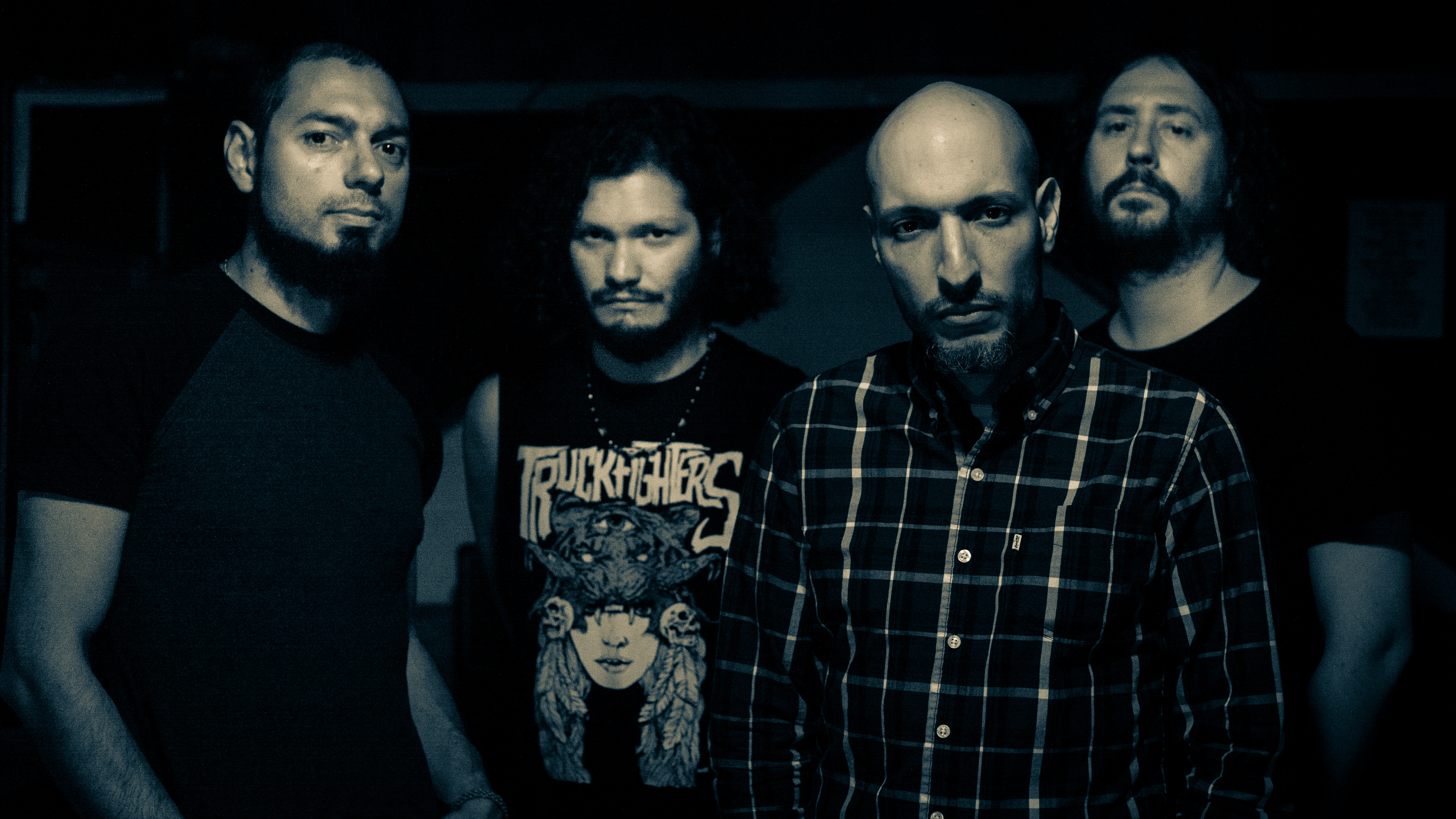 Band picture of Cultura Tres 2017